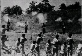 execution of five commanding officers on 12 August 1951 responsible of the deaths of thousands of soldiers during the National Defense Corps Incident